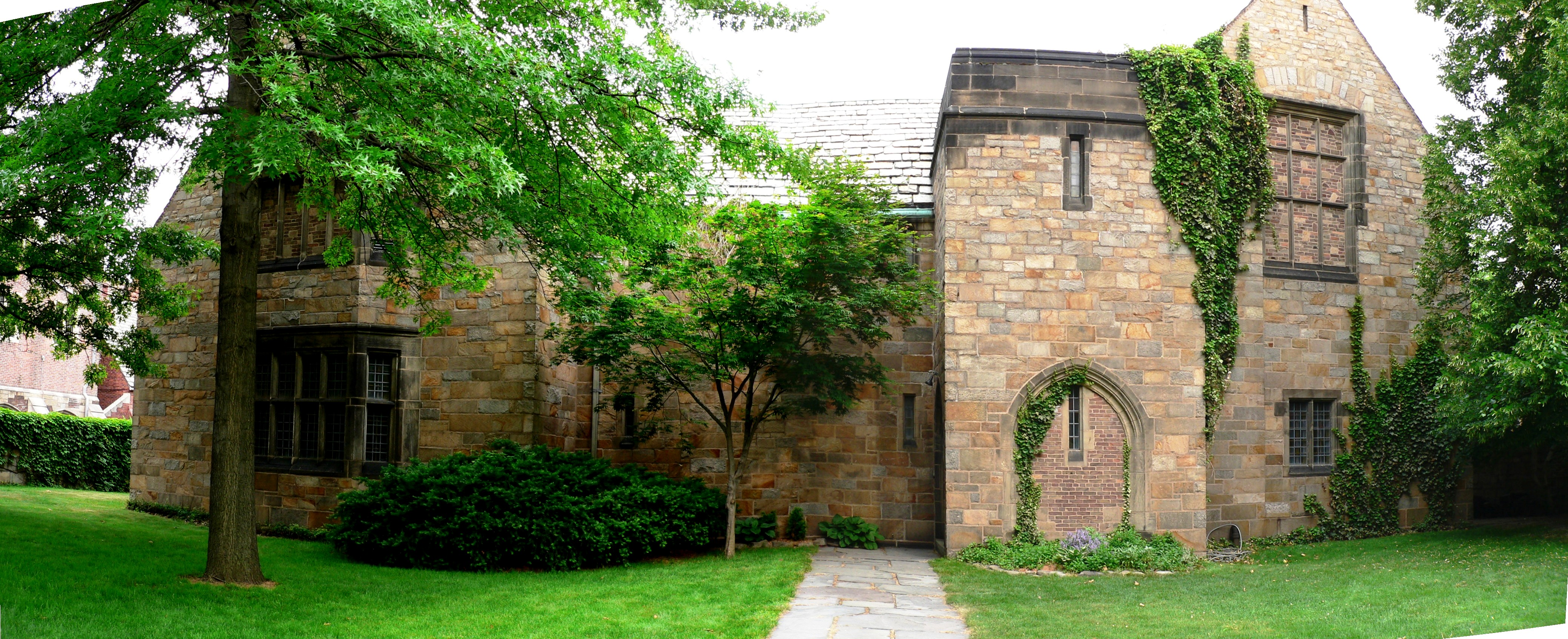 I took two facade photos at Yale in June 2007 and made a composite shot of the historic Wolf's Head building.